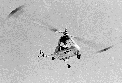 American Helicopter Co. XH-26 "Jet Jeep" undergoing flight testing.